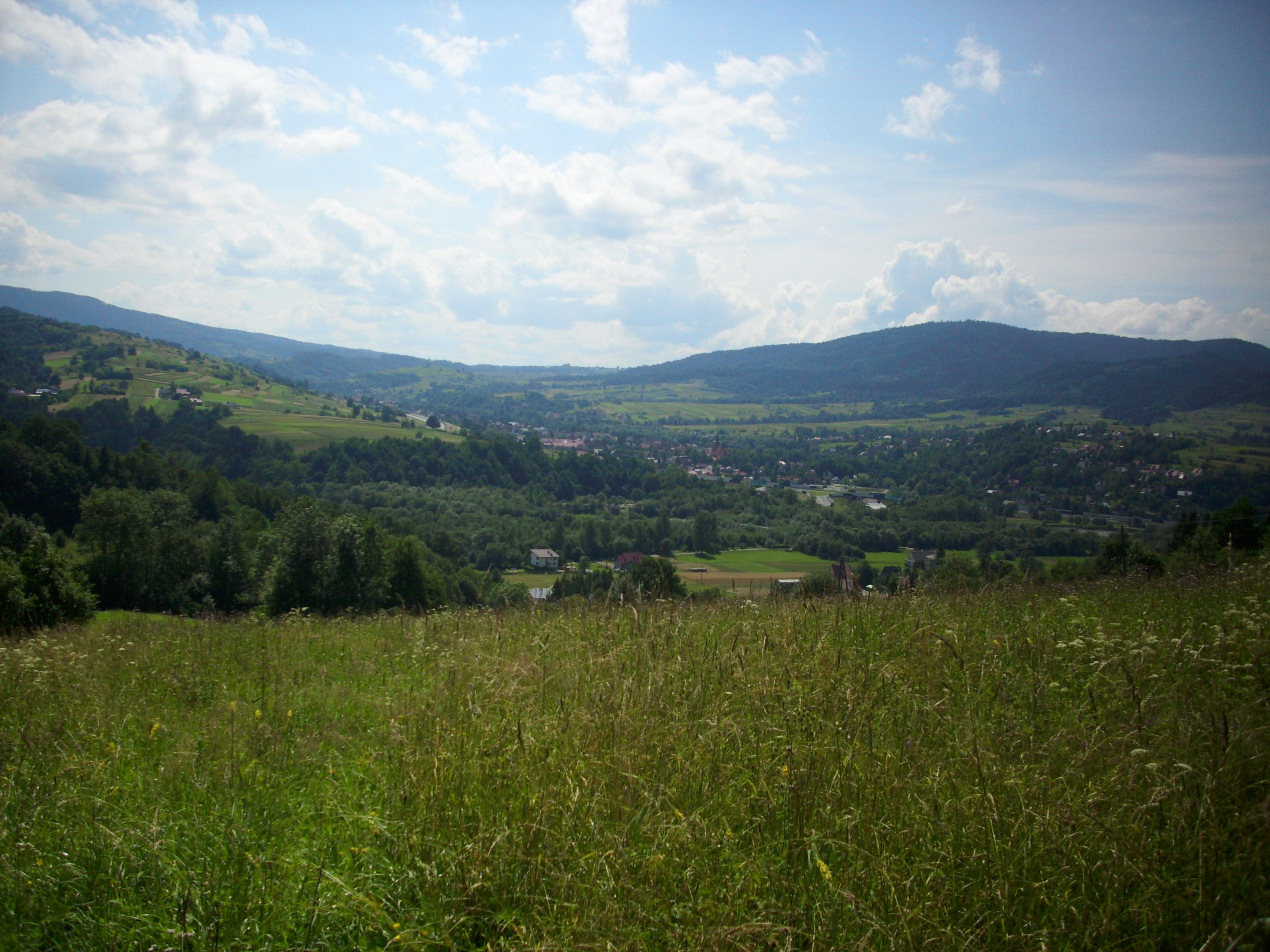 View on Lubień from road to Działy